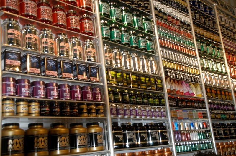 Scitec Nutrition products at FIBO 2013